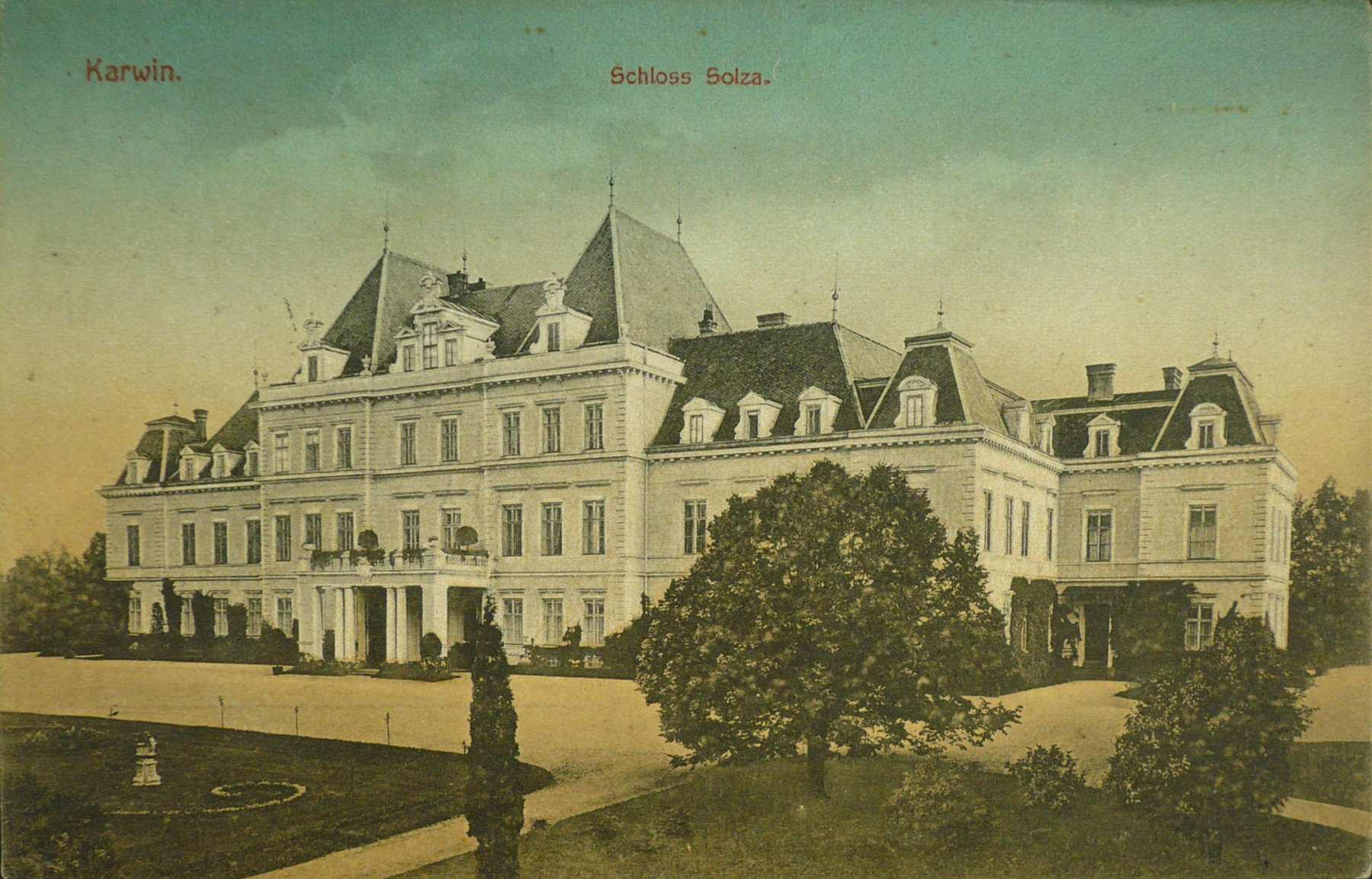 Solca palace near Karviná, old postcard (non-existent building)